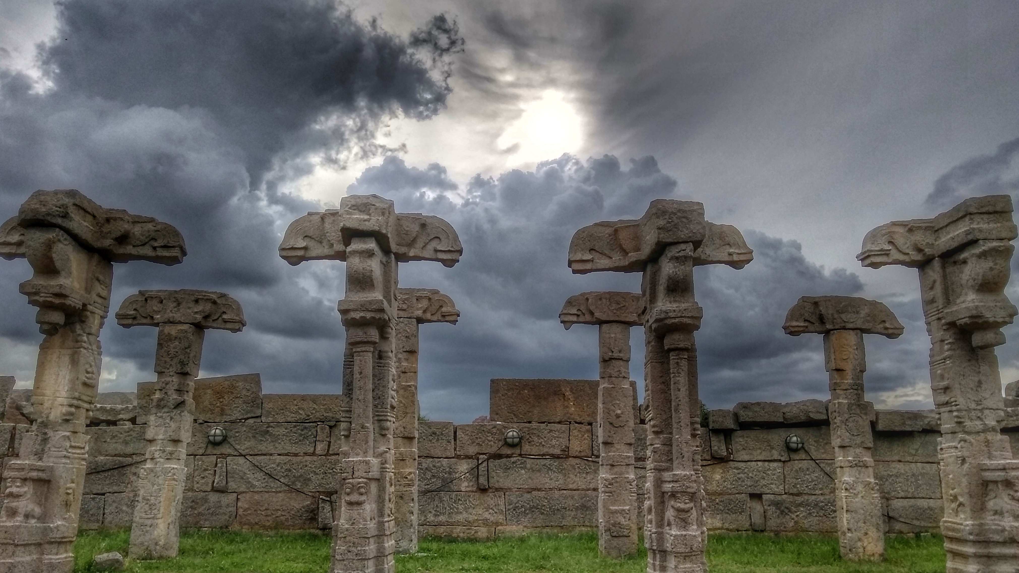 Vittal Temple Complex3, Hampi